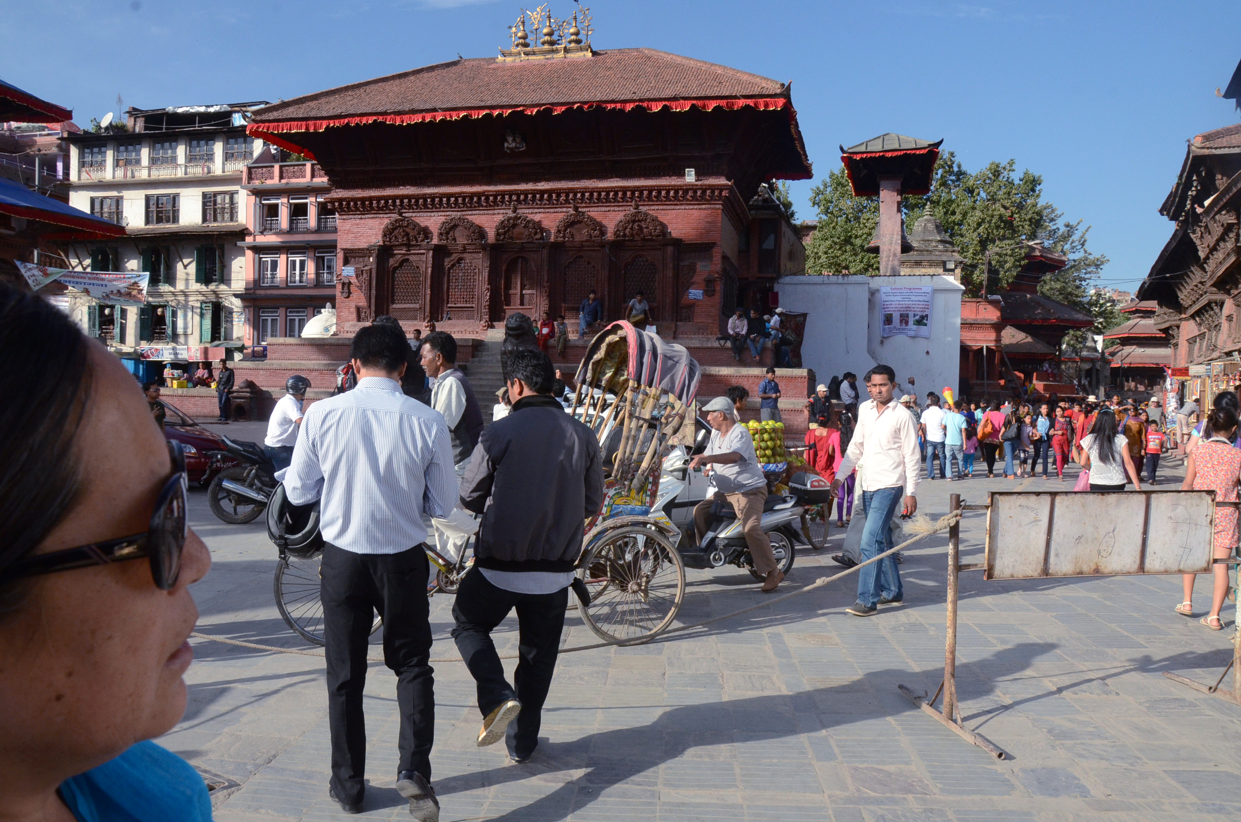 Kathmandu Durbar Square 2013